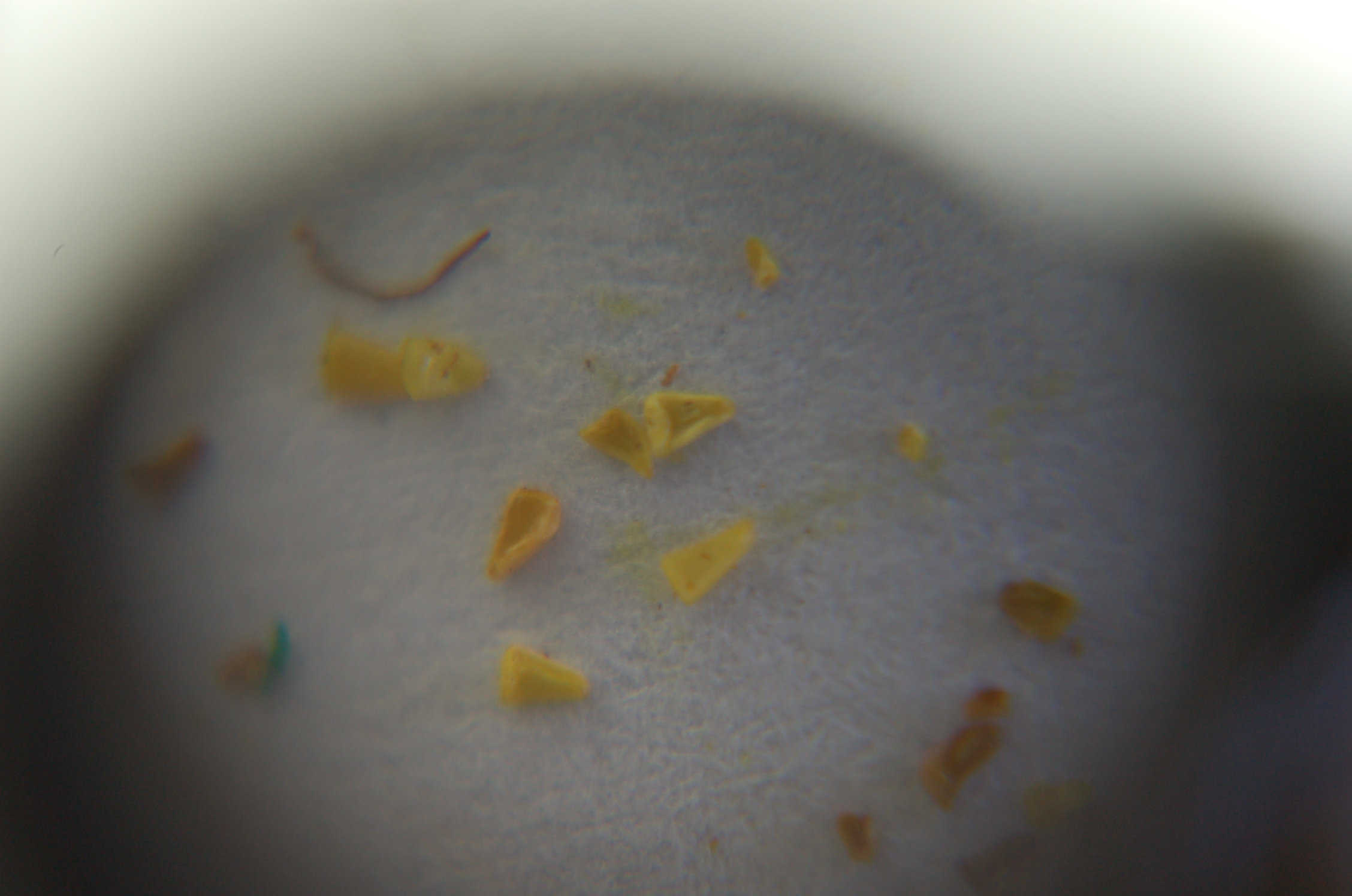 A closer look at the shape of Heimia salicifolia seed